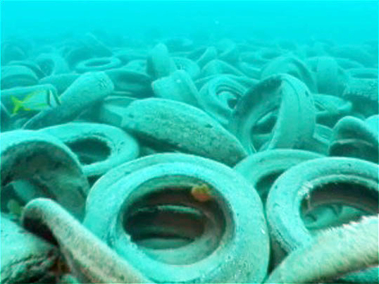 Some 2 million tires were dumped off the coast of Fort Lauderdale, Fla., in the 1970s, in an effort to create an artificial reef. Three decades later, military divers have begun removing the tires.